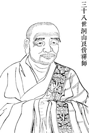 Dongshan Liangjie, a late Tang Dynasty Zen monk. Woodcut, Ching dynasty; caption:「三十八世洞山良价禪師」